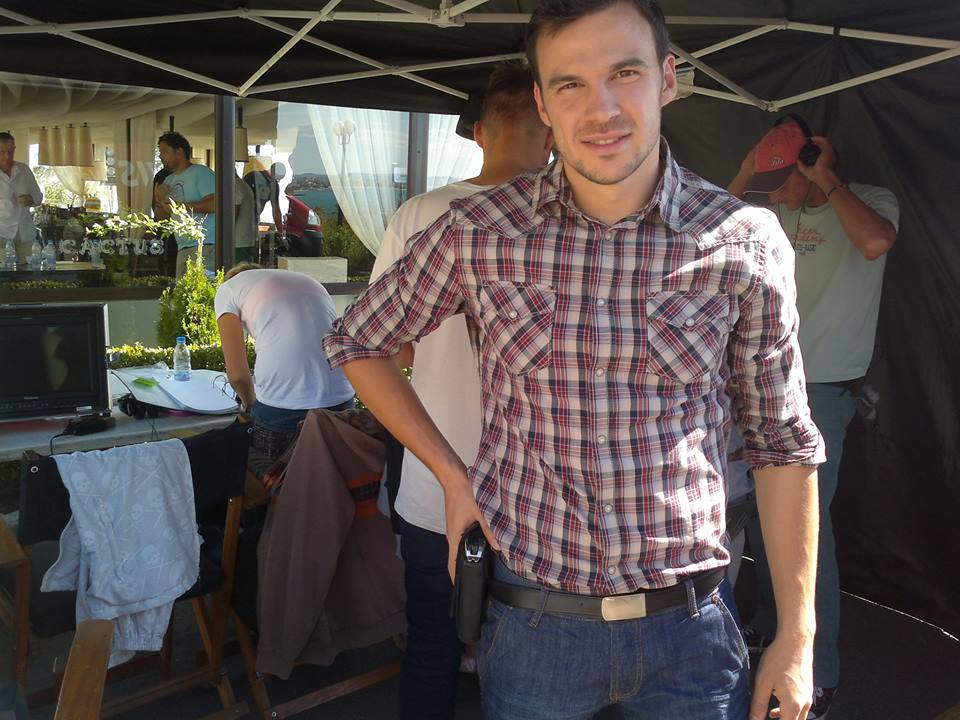 Behind the scenes photo of Bulgarian actor Ivaylo Zahariev while shooting Undercover